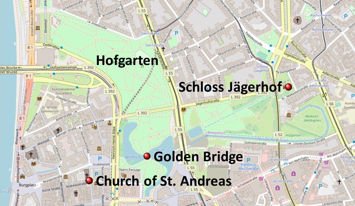 Golden Bridge location map, Düsseldorf, identifying the objects at the end of the sightline that was the basis for the location of the bridge. Map base is OpenStreetMap (ODbL), with © OpenStreetMap contributors